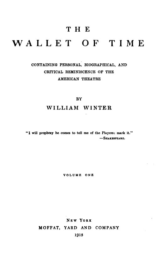 Image of title page from The Wallet of Time: Containing Personal, Biographical, and Critical Reminiscence of the American Theatre, by William Winter. New York: Moffat, Yard and Company, 1913.